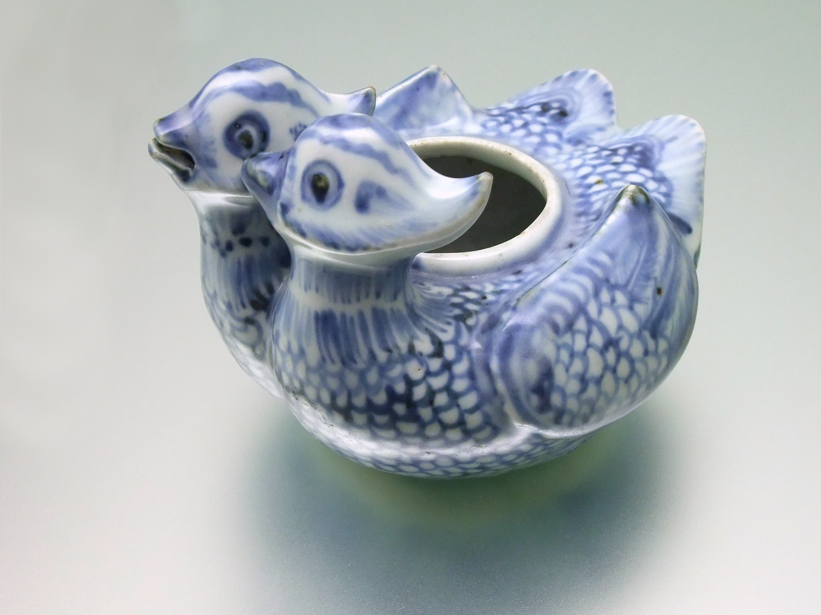 Water-droppet in the shape of a pair of mandarin ducks in underglaze blue (16th century) on display at the Hong Kong Museum of Art.